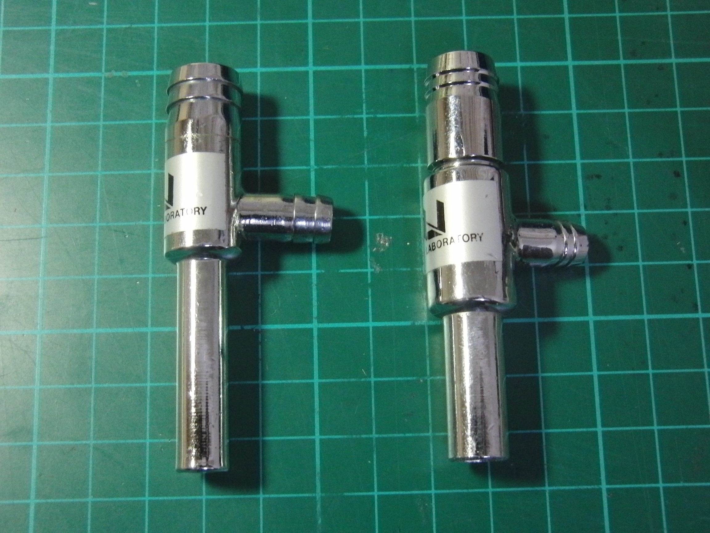 Aspirator sample